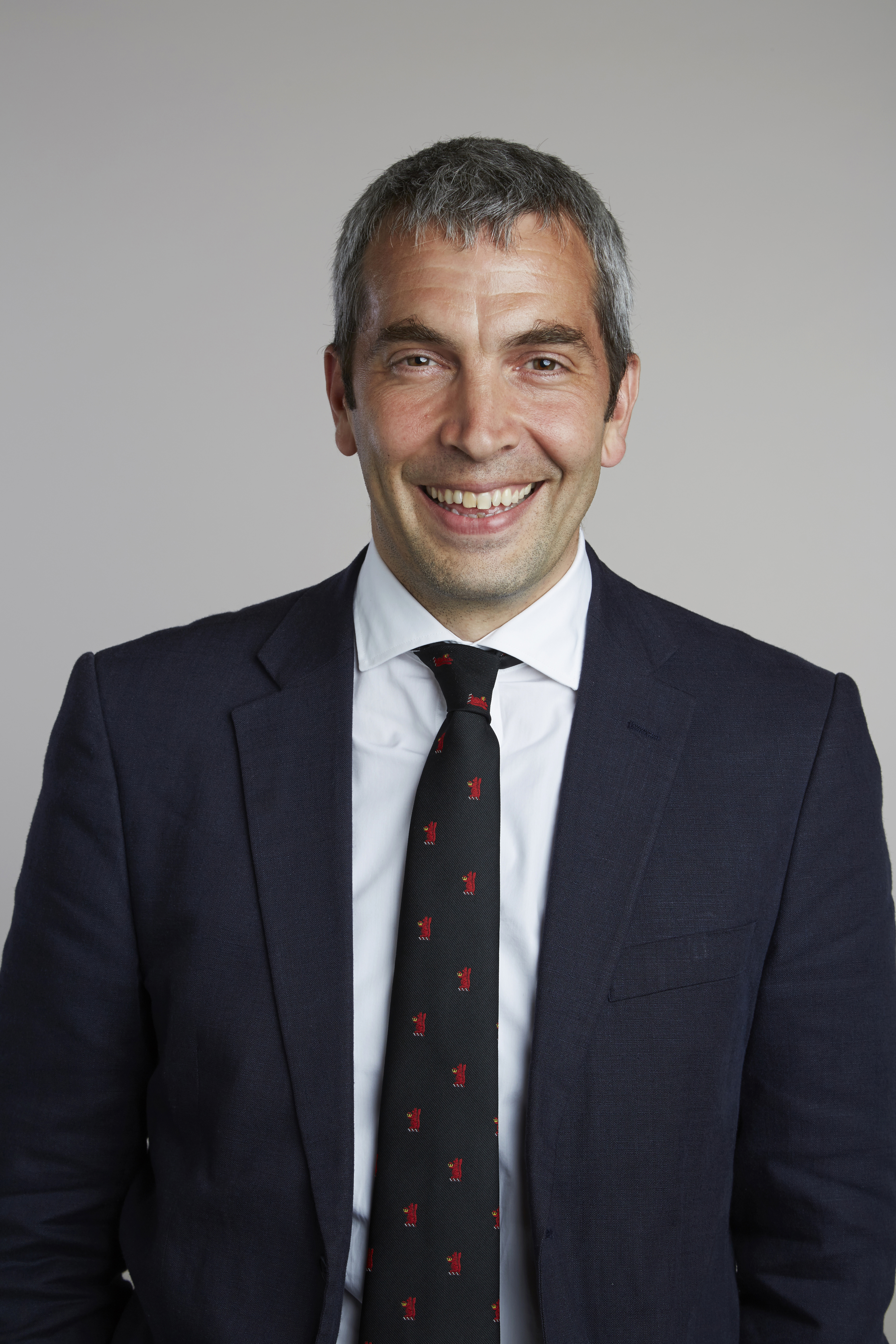 Ben Davis got his B.A. (1993) and D.Phil. (1996) from the University of Oxford. During this time he learnt the beauty of carbohydrate science under the supervision of Professor George Fleet. He then spent 2 years as a postdoctoral fellow in the laboratory of Professor Bryan Jones at the University of Toronto, exploring protein chemistry and biocatalysis. In 1998 he returned to the U.K. to take up a lectureship at the University of Durham. In the autumn of 2001 he moved to the Dyson Perrins Laboratory, University of Oxford and received a fellowship at Pembroke College, Oxford. He was promoted to Full Professor in 2005. His group's research centres on the chemical understanding and exploitation of biomolecular function (Synthetic Biology, Chemical Biology and Chemical Medicine), with an emphasis on carbohydrates and proteins. In particular, the group's interests encompass synthesis and methodology; target biomolecule synthesis; inhibitor/probe/substrate design; biocatalysis; enzyme & biomolecule mechanism; biosynthetic pathway determination; protein engineering; drug delivery; molecular biology; structural biology; cell biology; glycobiology; molecular imaging and in vivo biology. Attribution: The Royal Society